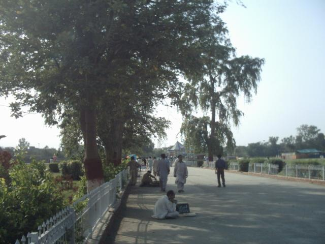 Street view at Iqbal park. Picture taken by Pale blue dot on June 10, 2004.